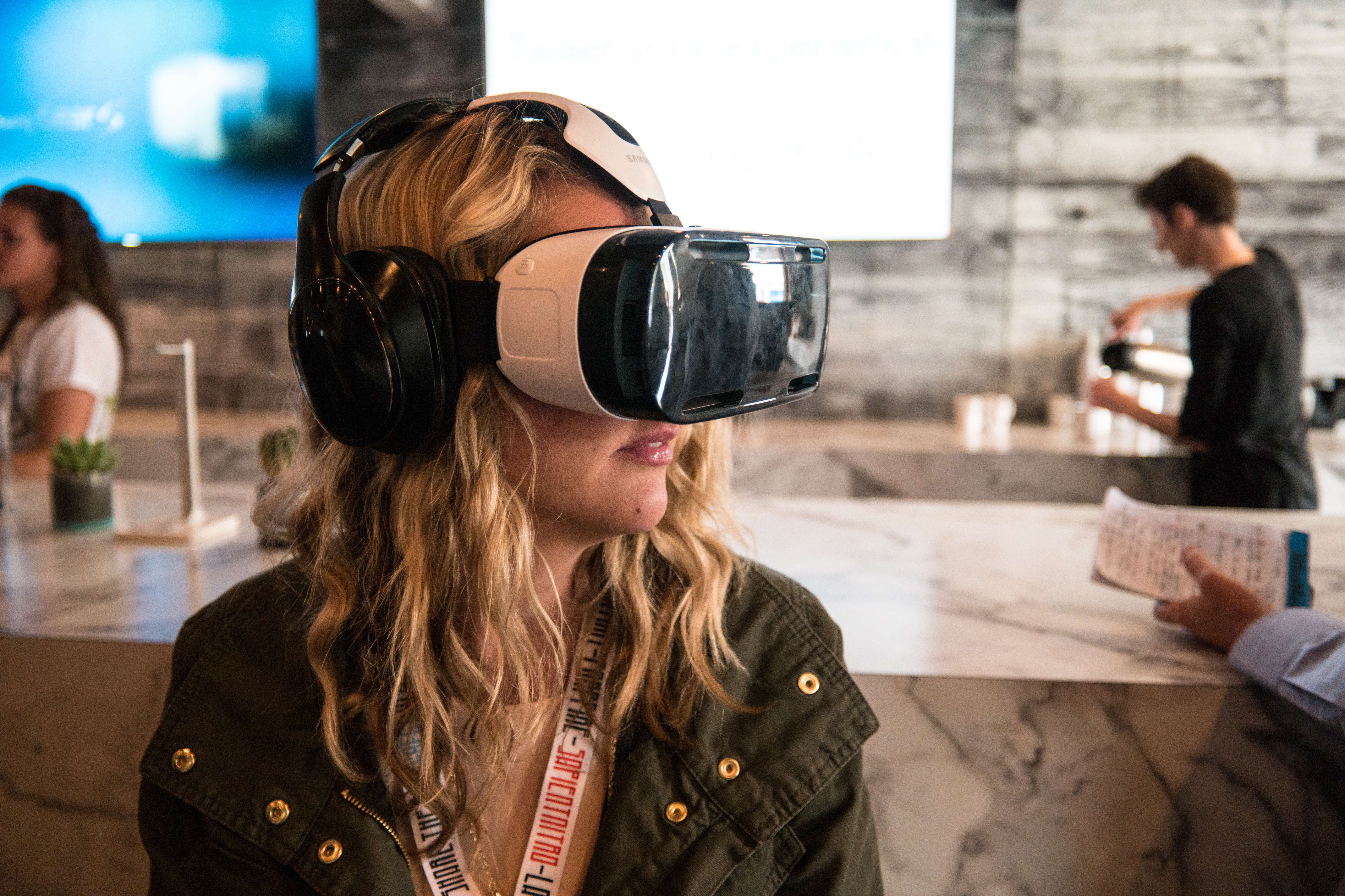 Woman Using a Samsung VR Headset at SXSW